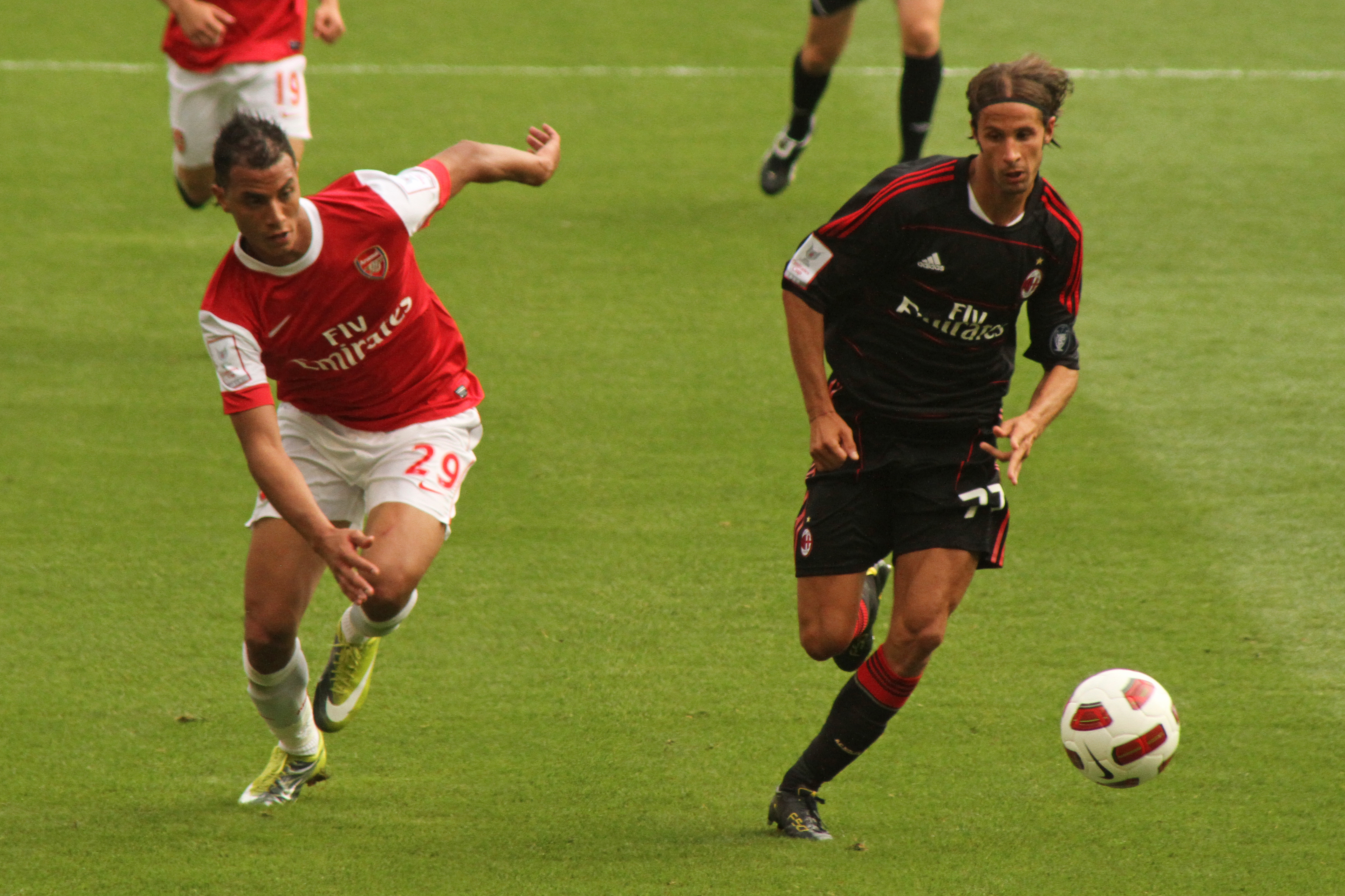 Marouane Chamakh and Luca Antonini during Emirates Cup 2010